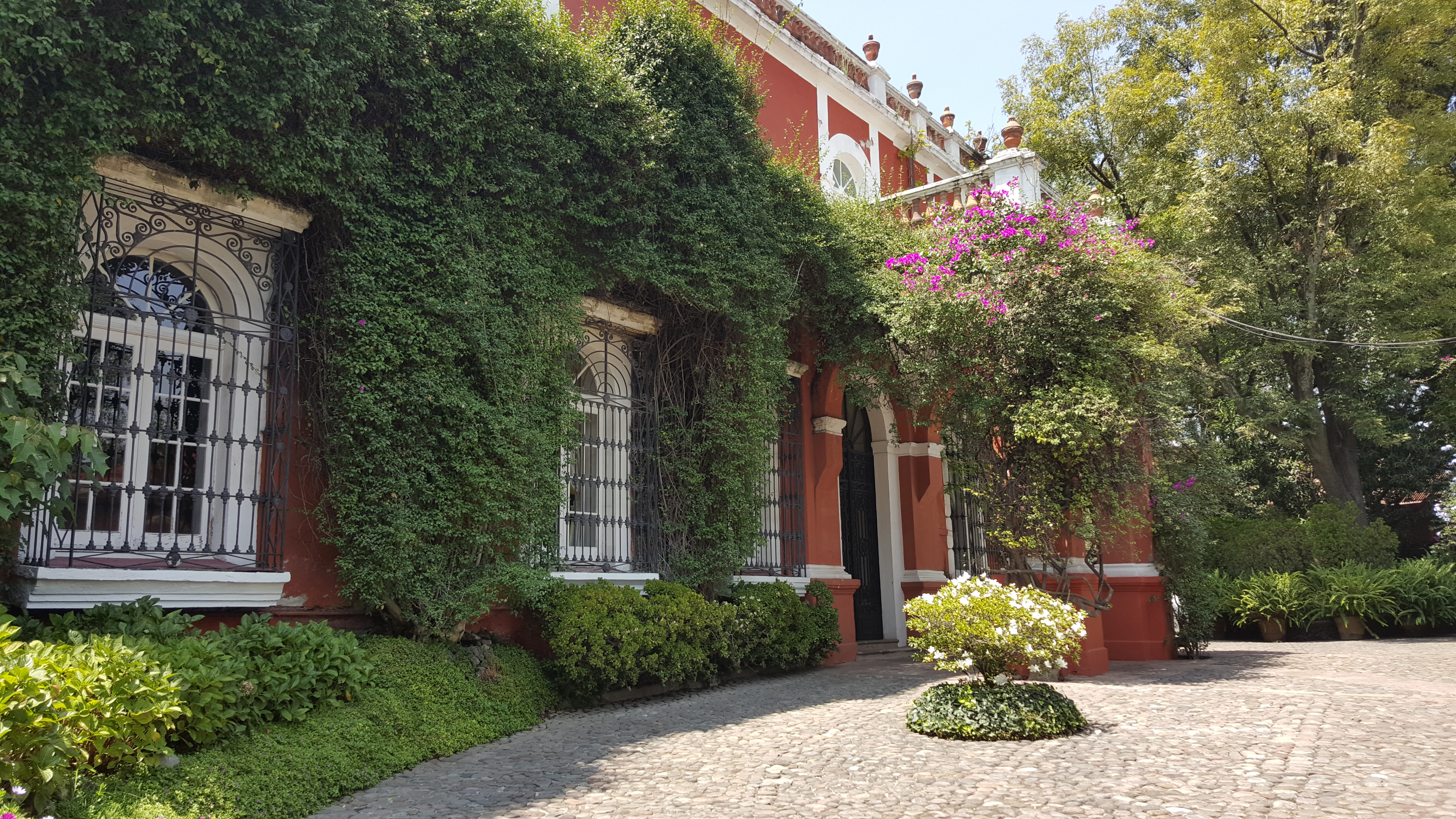 This image shows the facade of the Mayorazgo de Fagoaga house located in the borough of San Ángel in Mexico City. The house was built in the XVII century and now displays a neo-classical style, distinctive of the neighborhood.